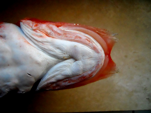 Trigla lyra collected on Grosseto fish market (Tuscany, W-Central Italy). Photo by Massimiliano Marcelli.